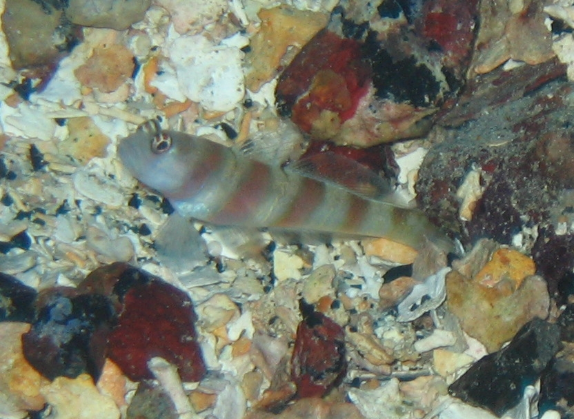 Steinitz's shrimpgoby (Amblyeleotris steinitzi) Image ID: reef0547, NOAA's Coral Kingdom Collection Location: Chuuk, Federated States of Micronesia